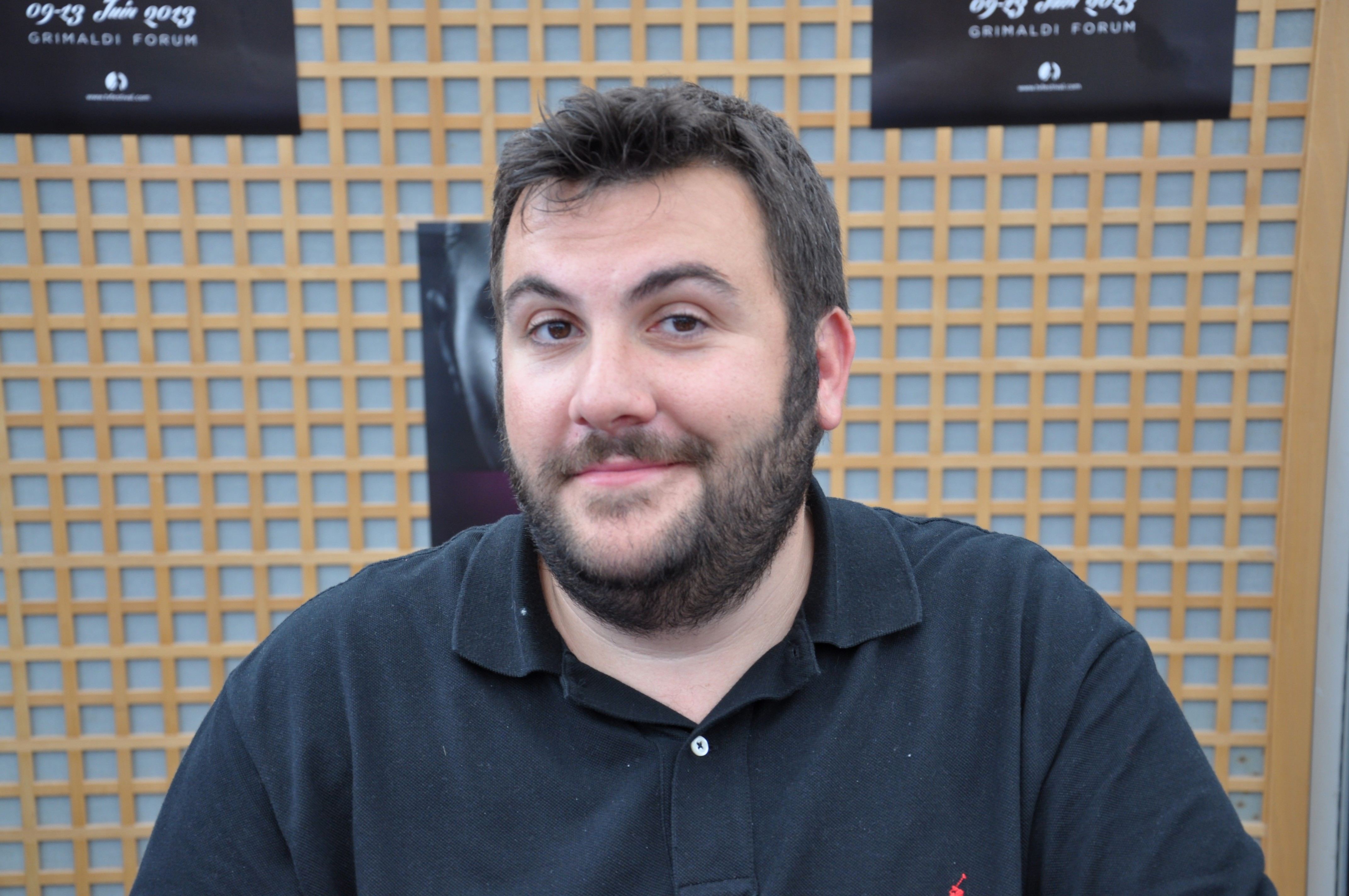 Laurent Ournac at the 2013 Monte-Carlo Television Festival.